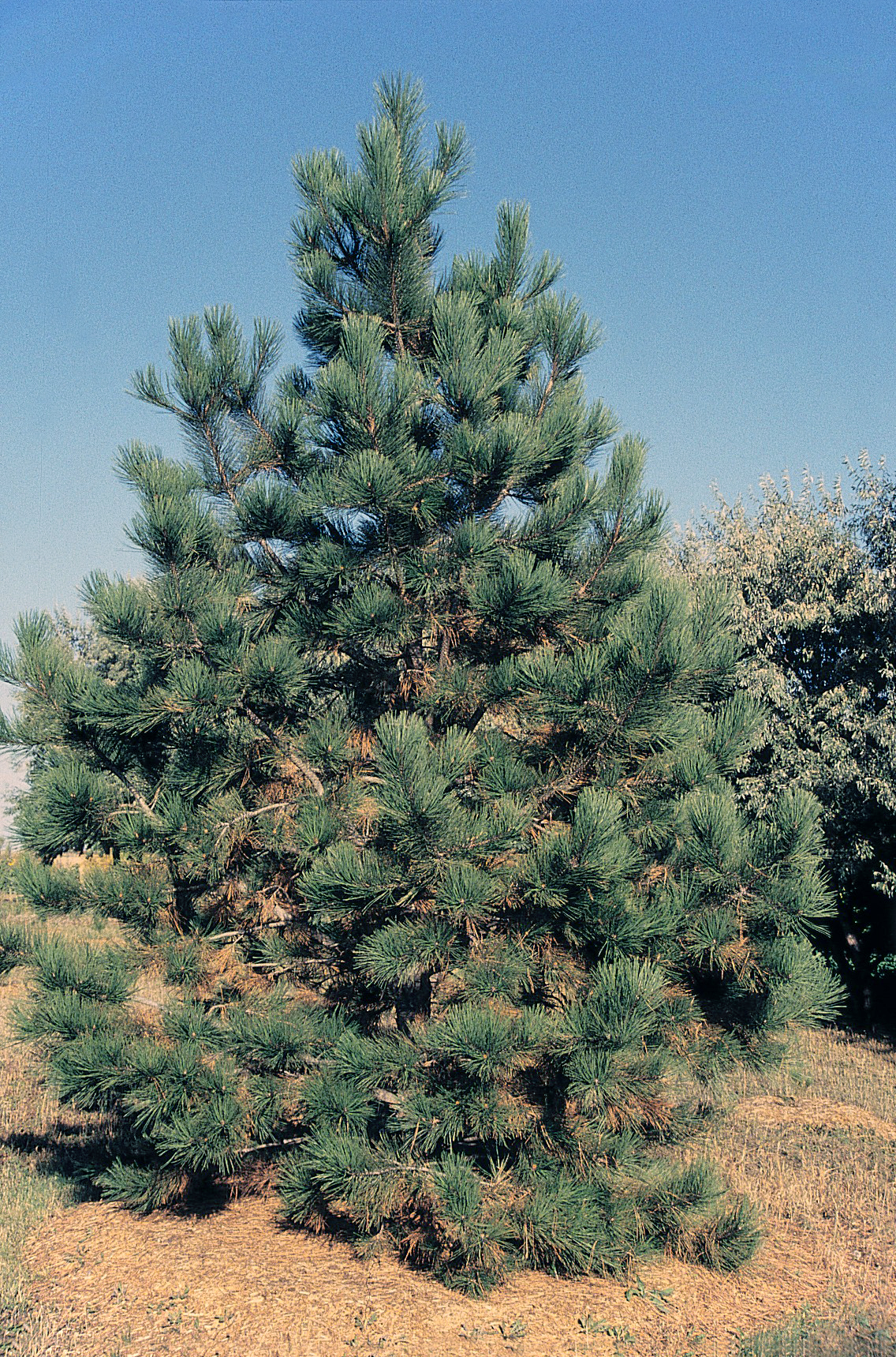 Rocky Mountains Ponderosa Pine. Tree.